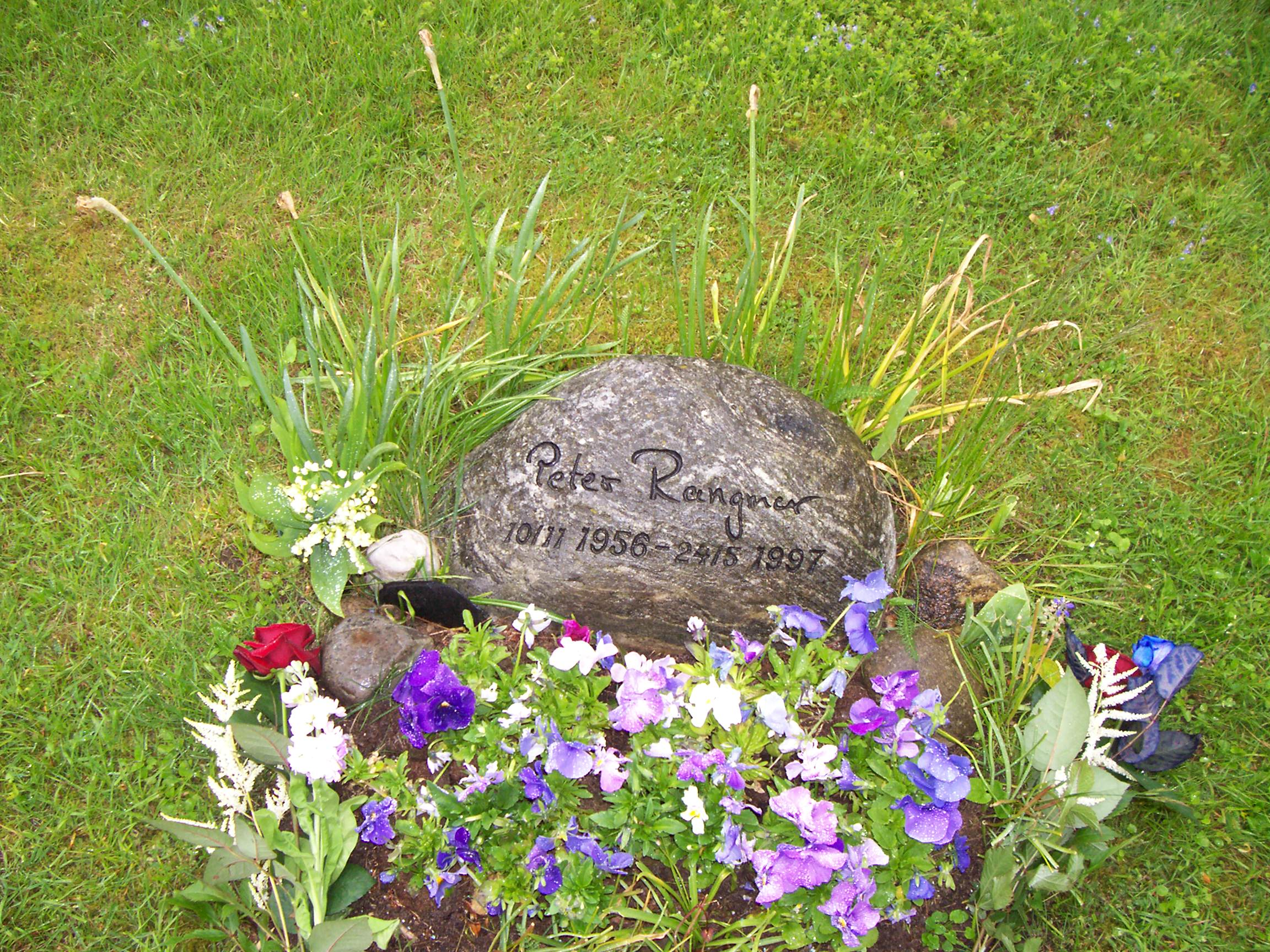 Gravestone of Peter Rangmar, swedish comedian